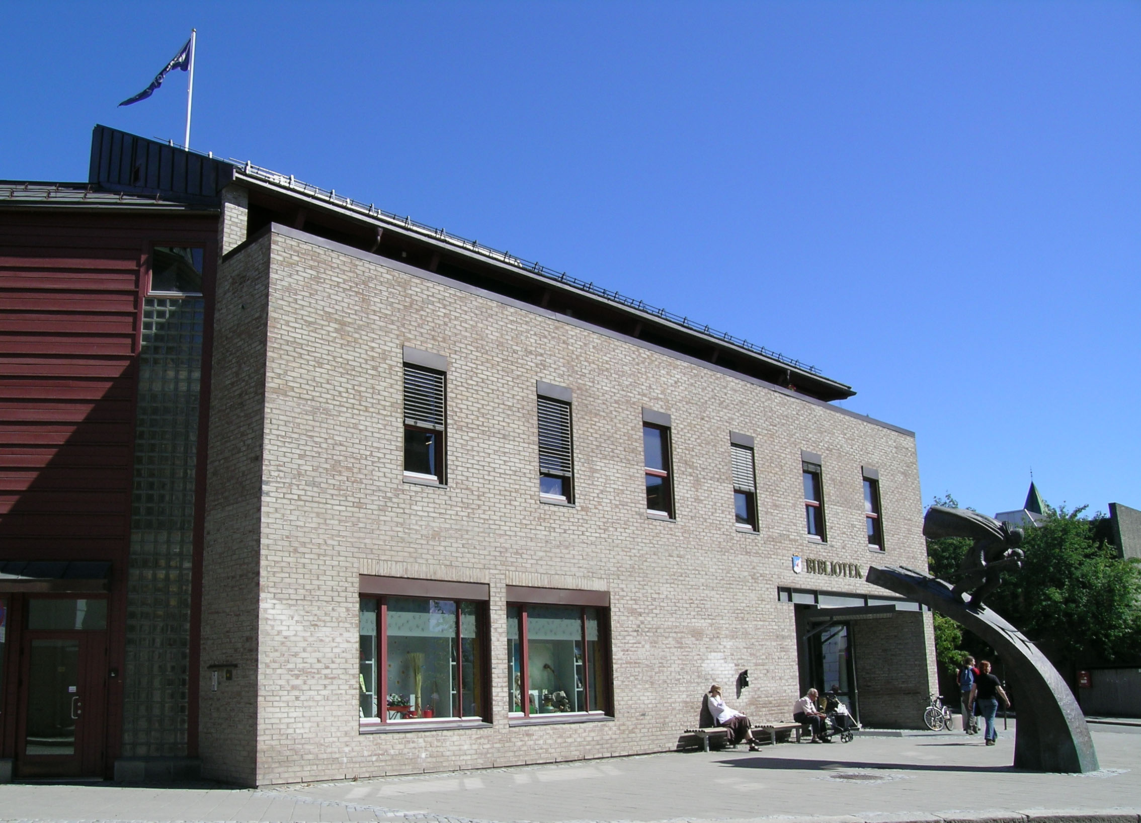 Lillehammer library, Lillehammer, Norway.